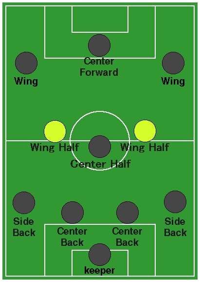 Position of WingHalf